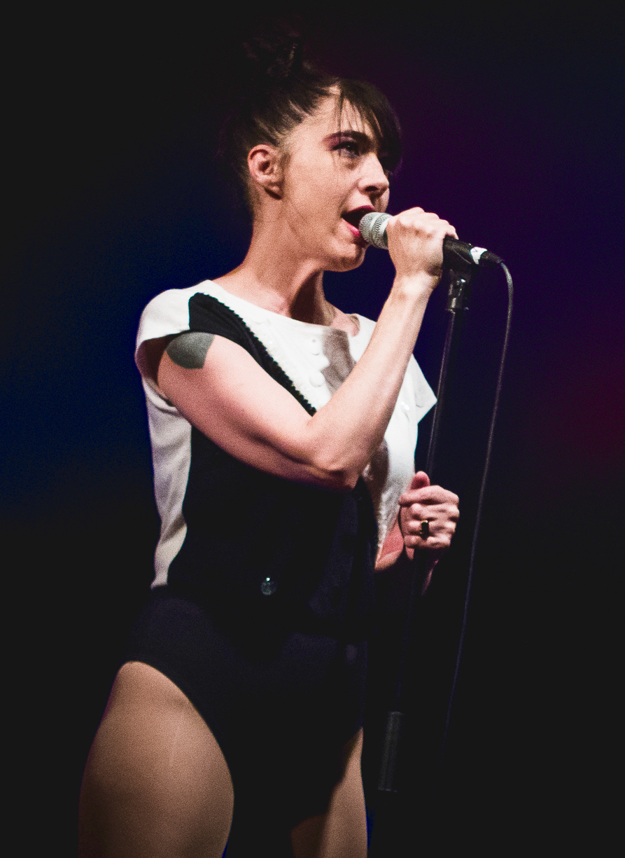 Crop of Kathleen Hanna, December 2016